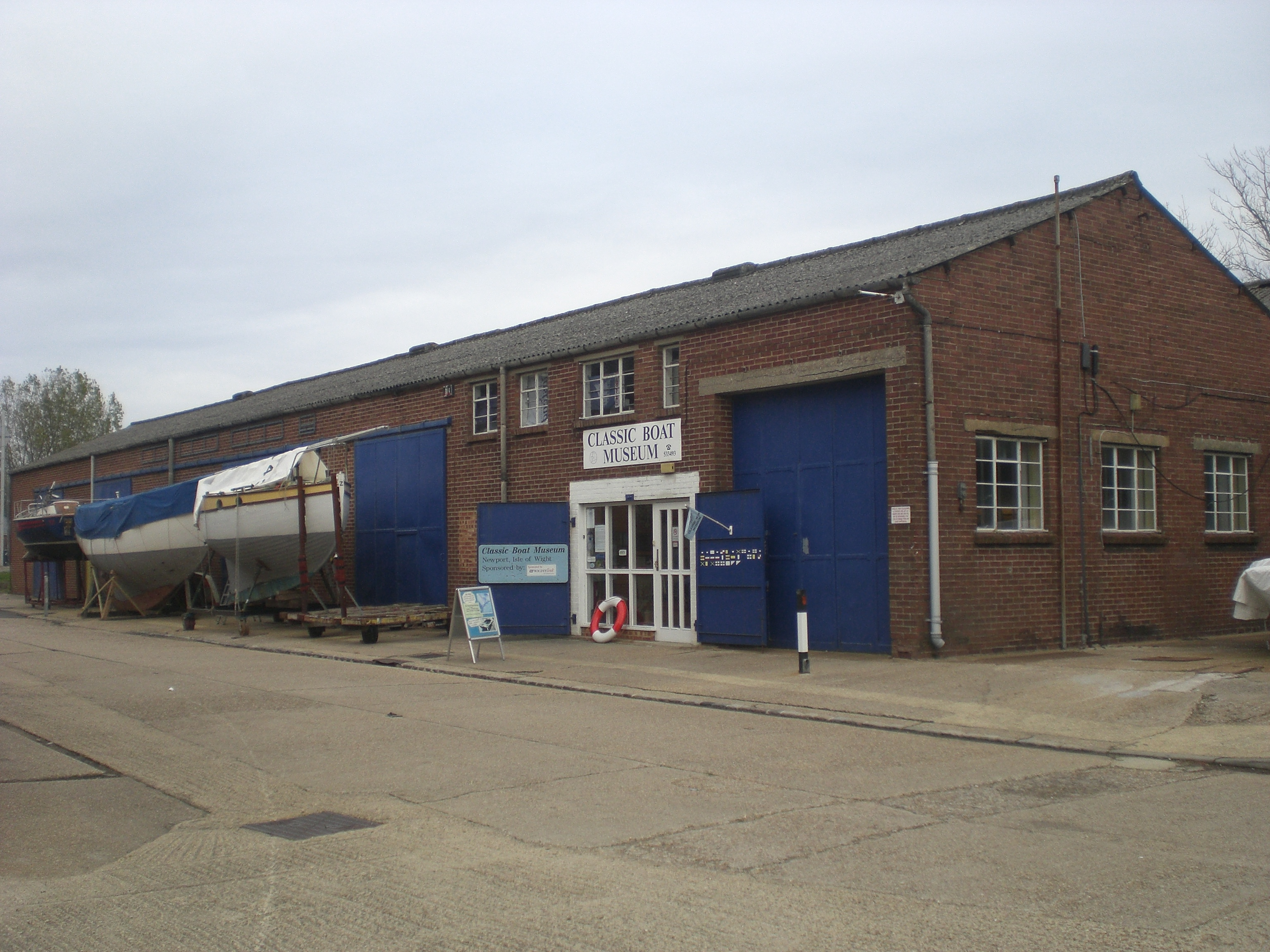 The outside of the Classic Boat Museum in Newport Quay on the Isle of Wight.